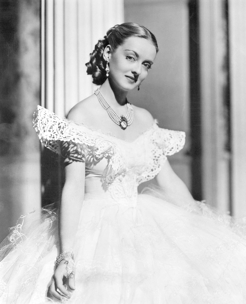 Promotional photograph of Bette Davis in the 1938 film Jezebel